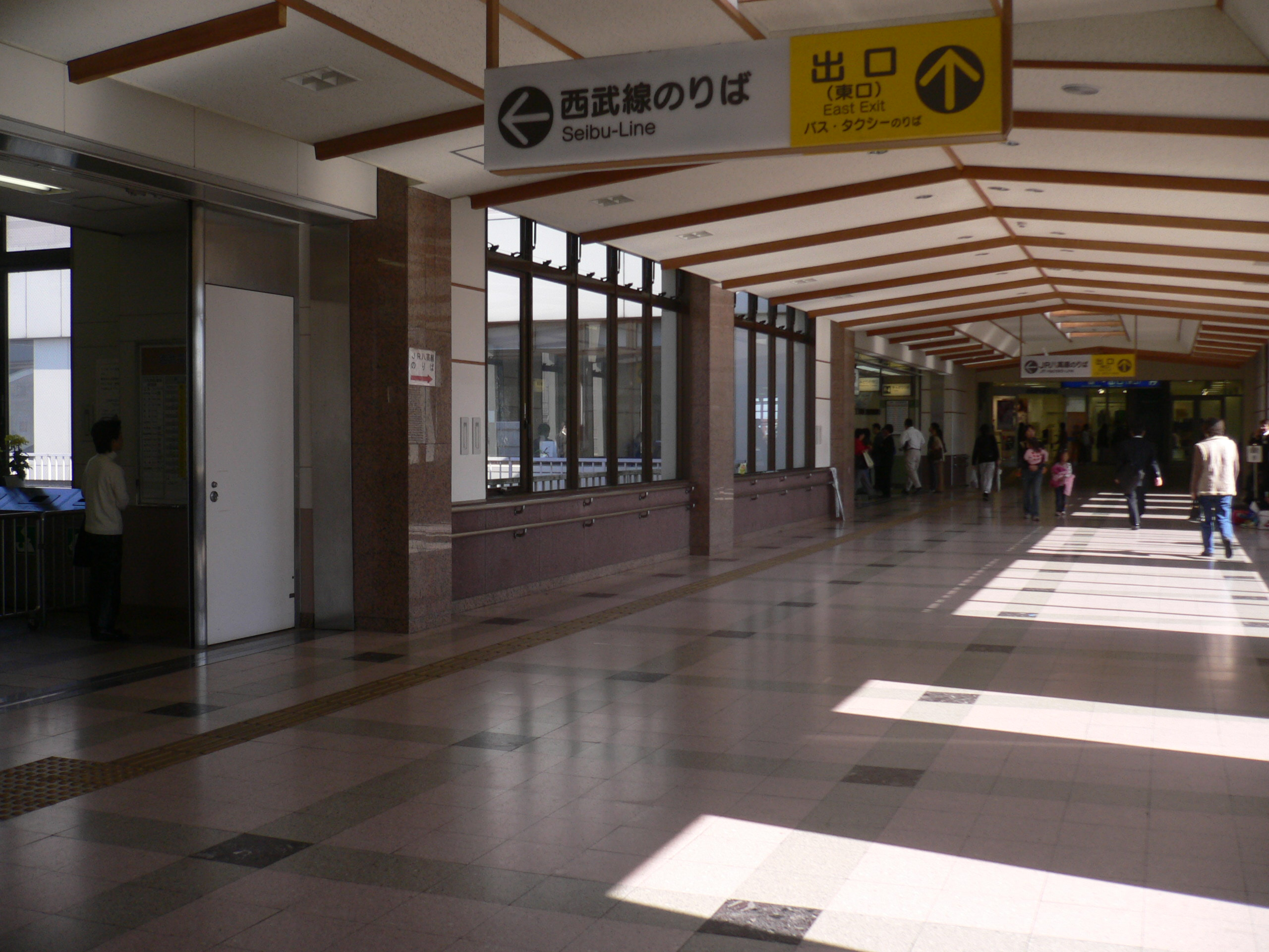 Higashi Hannō Station (東飯能駅) , Hannō C, Saitama P.